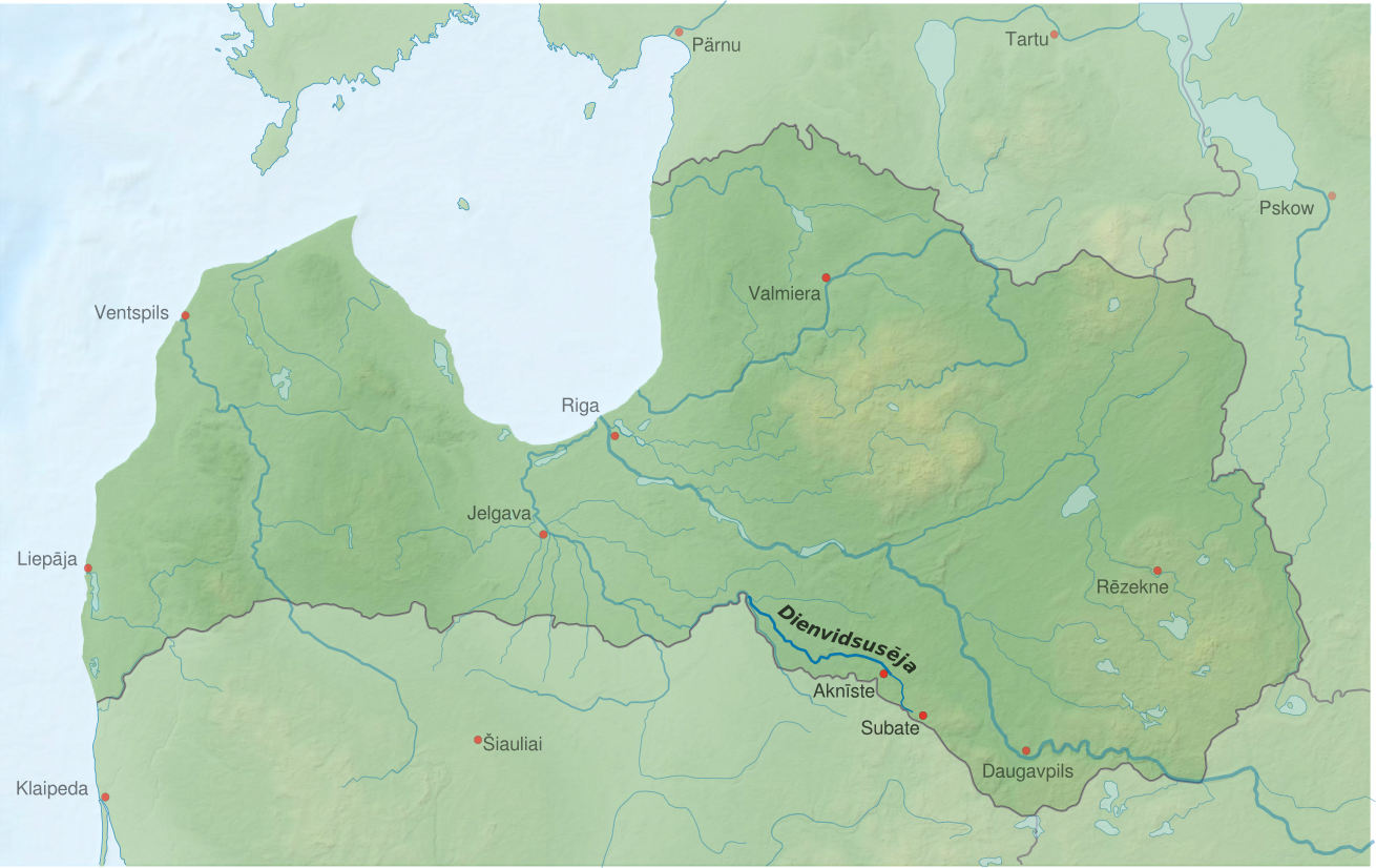 Map of river Dienvidsusēja in Latvia based on relief-location maps by users: NNW, Виктор В, Alexrk2, Chumwa, Karlis